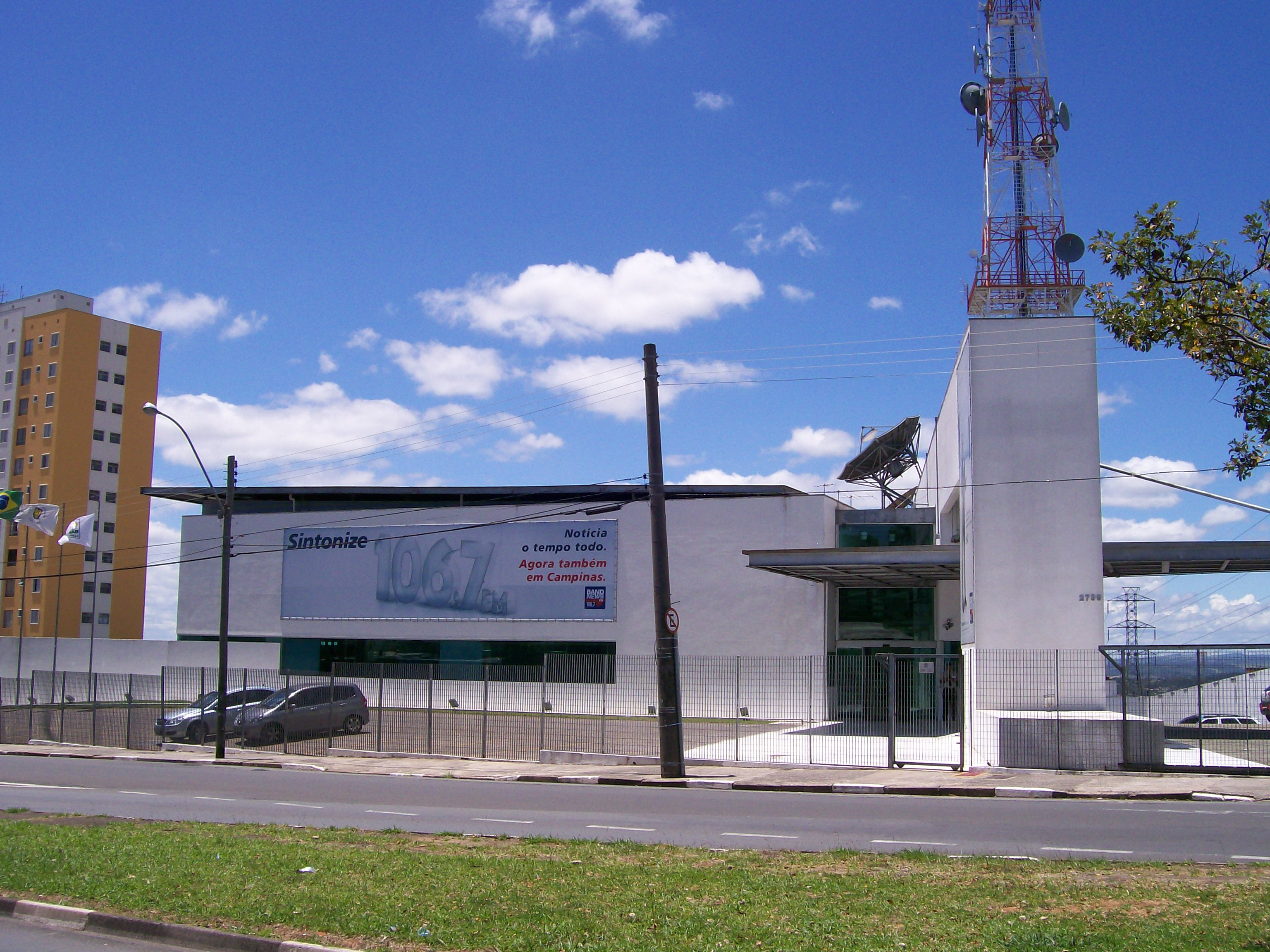 Band Campinas TV Headquarters. Campinas, Brazil.